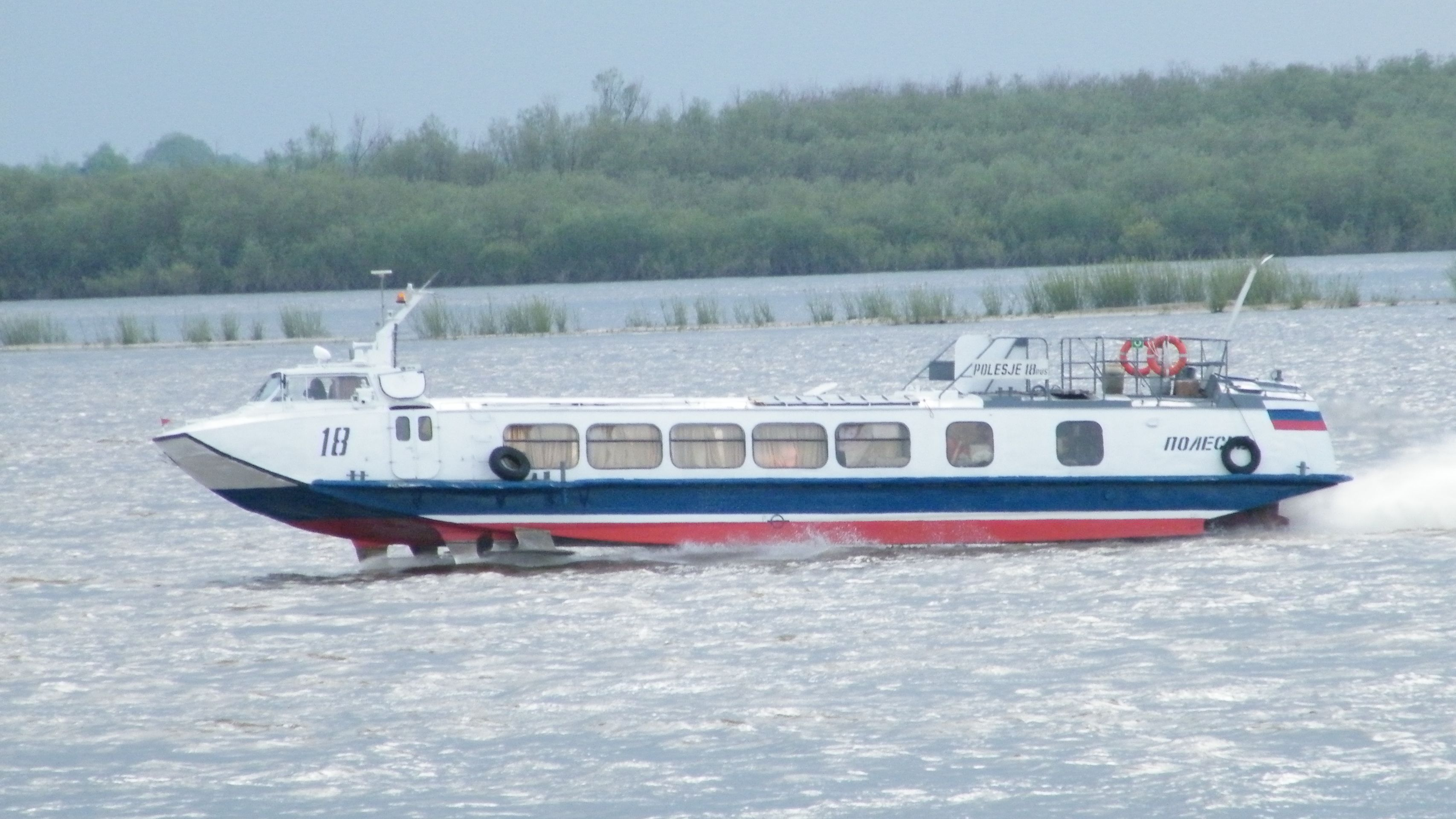 Polesye class hydrofoils